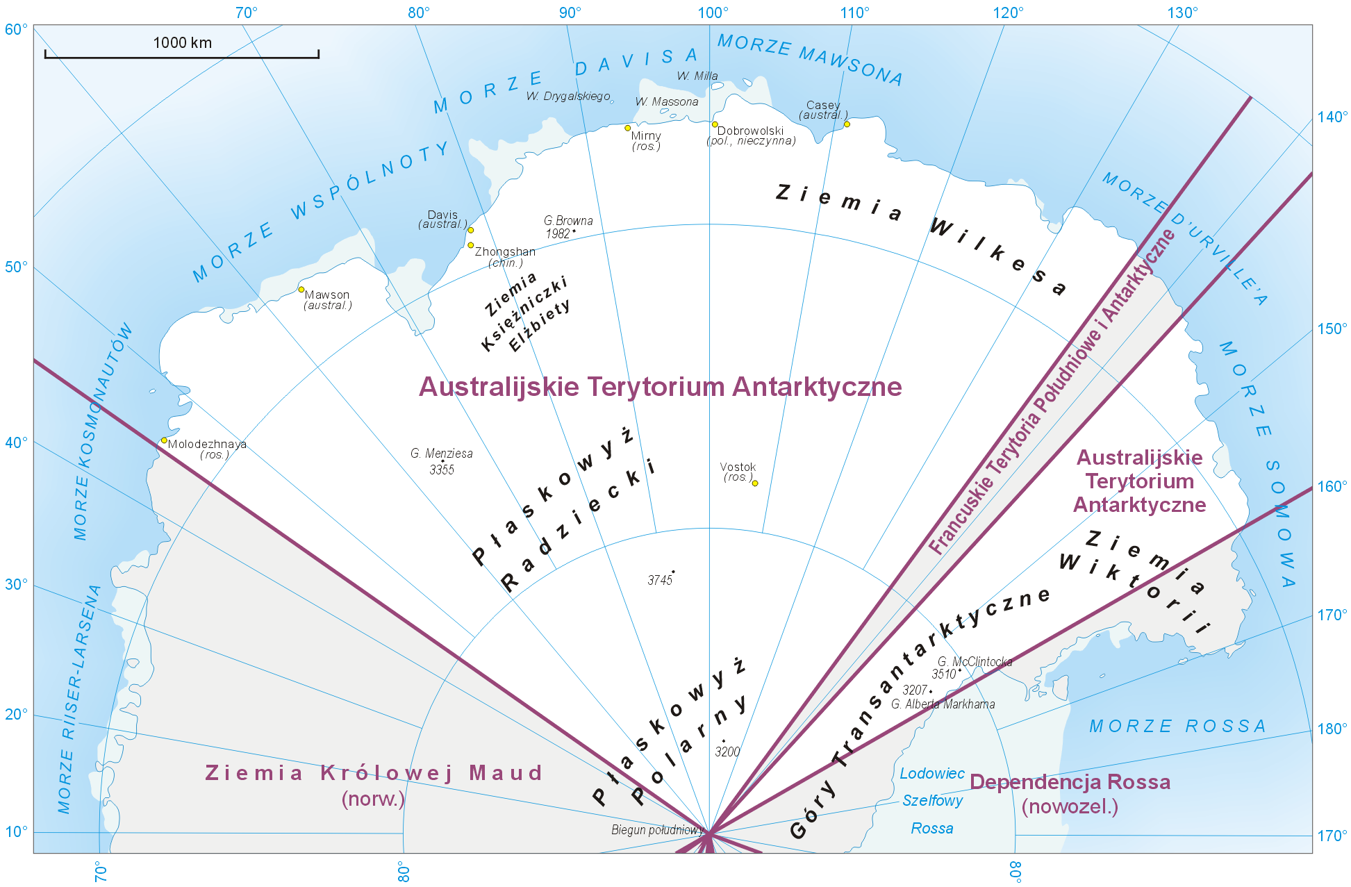 Map of Australian Antarctic Territory